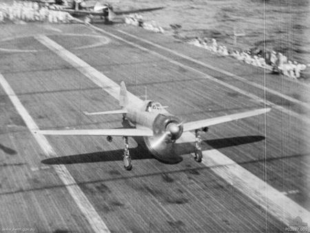 A Japanese Mitsubishi A6M Zero fighter about to take off from the deck of an Imperial Japanese Navy aircraft carrier during the Battle of the Santa Cruz Islands.